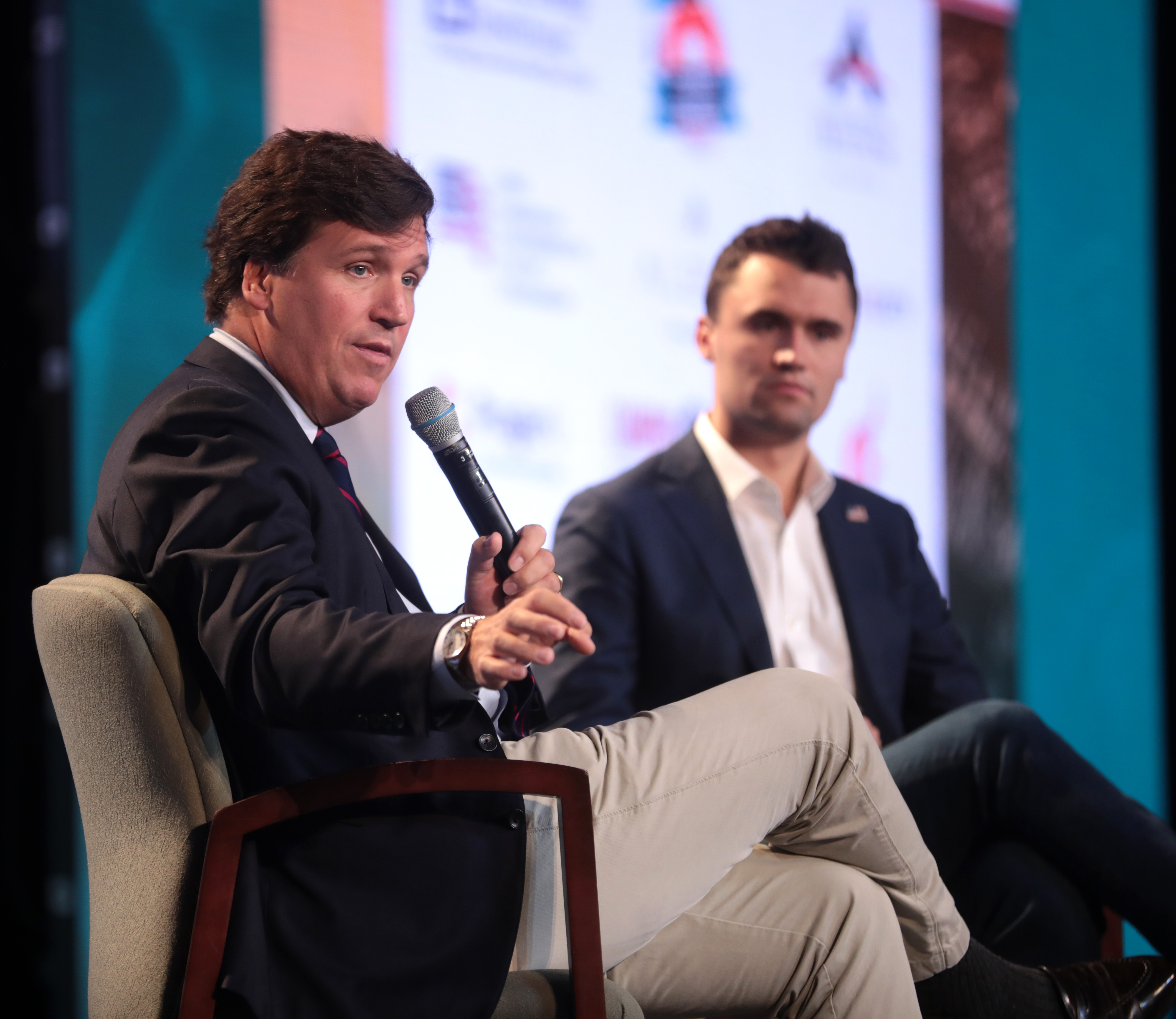 Tucker Carlson and Charlie Kirk speaking with attendees at the 2018 Student Action Summit hosted by Turning Point USA at the Palm Beach County Convention Center in West Palm Beach, Florida.